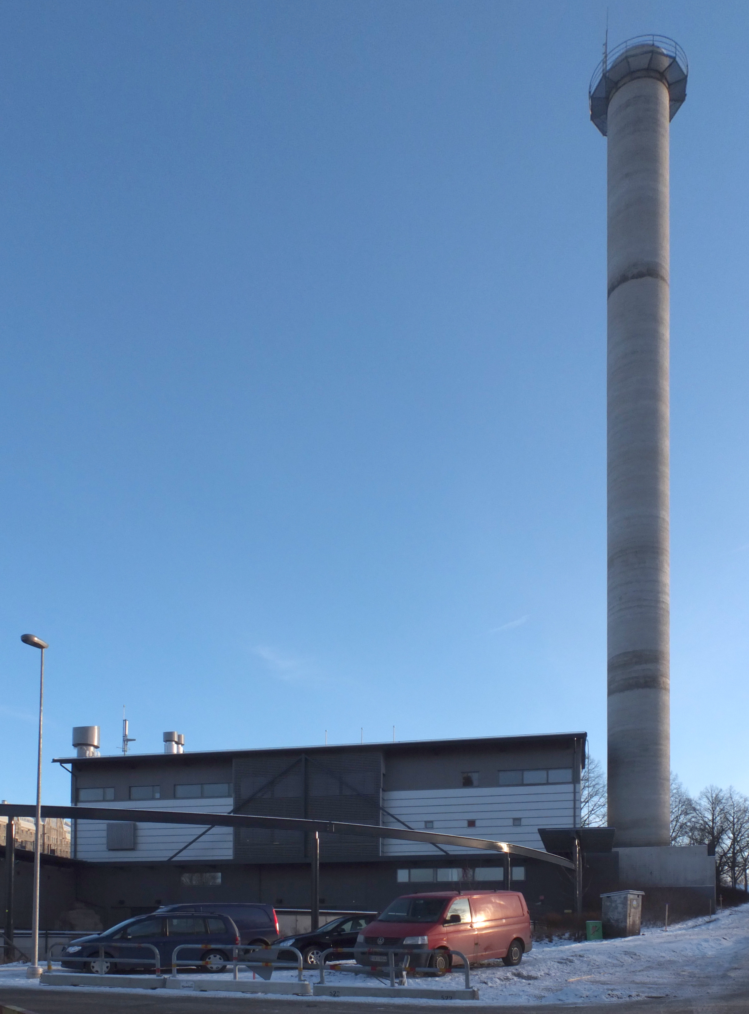 New underground wastewater facility in Kakola, Turku, Finland.